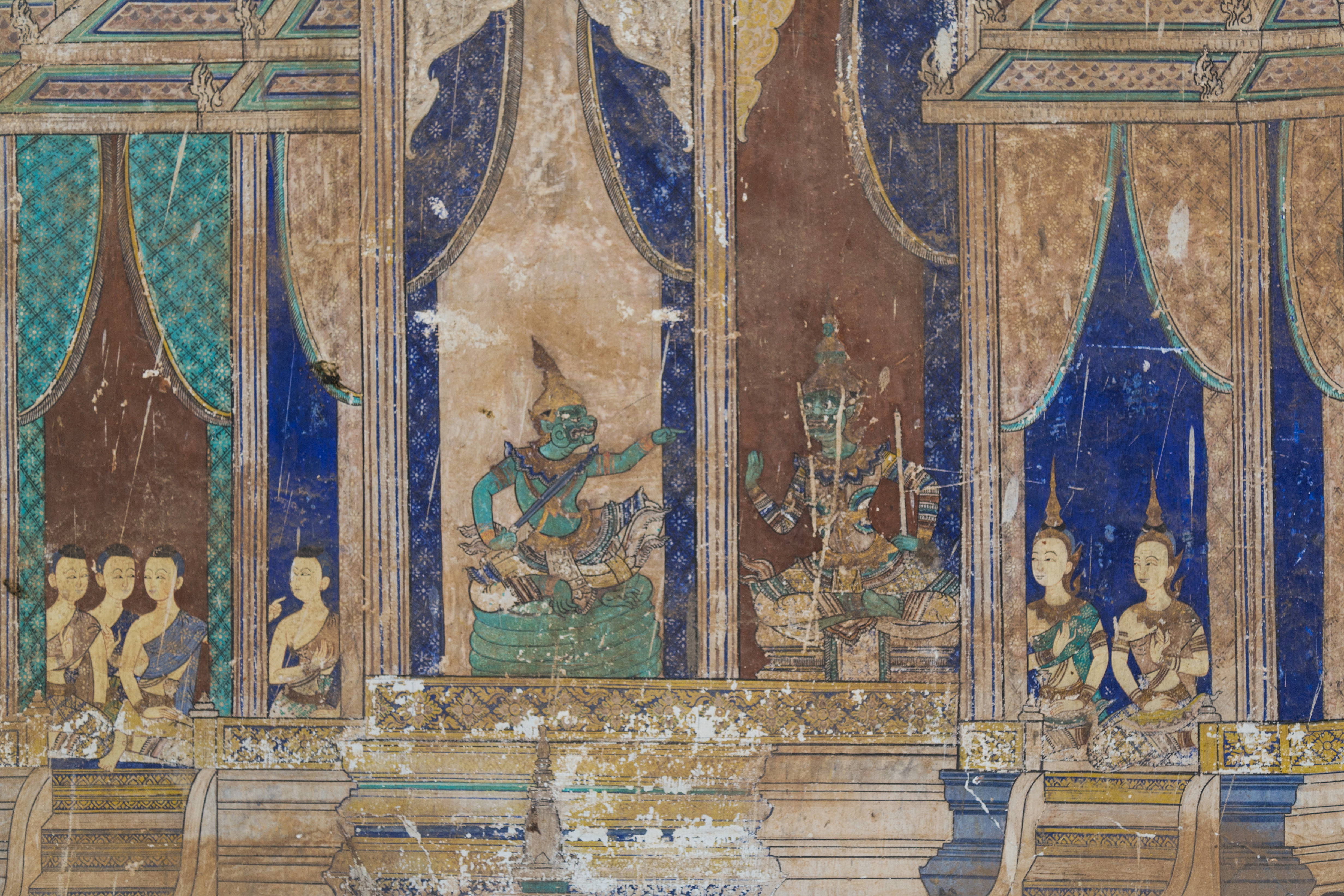 Paintings depicting scenes from the Reamker (Khmer epic poem based on the Ramayana). Royal Palace. Phnom Penh, Cambodia.